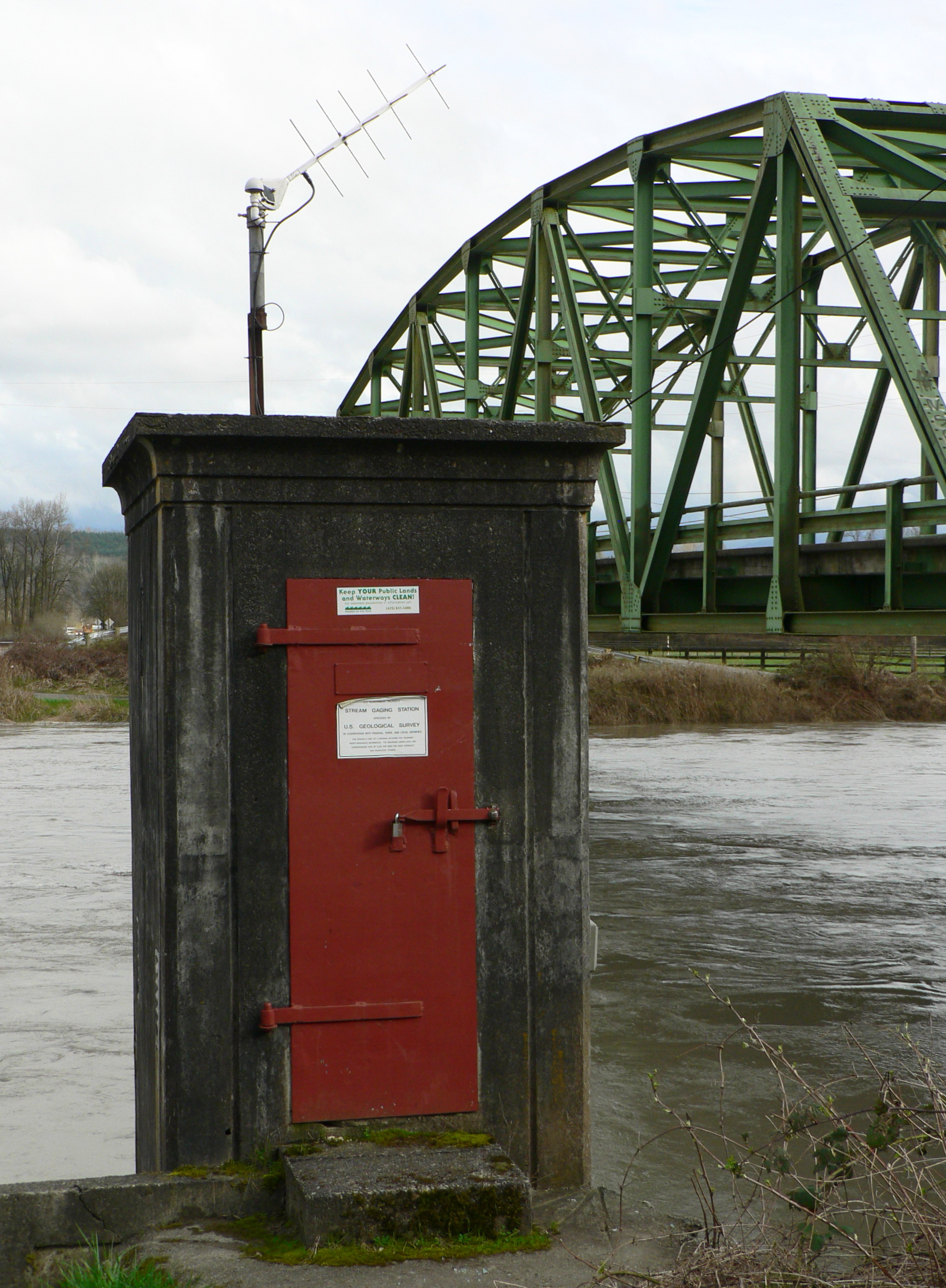 Snoqualmie River "Stream Gaging Station, U.S. Geological Survey", antenna for datalink USGS 12149000 SNOQUALMIE RIVER NEAR CARNATION, WA